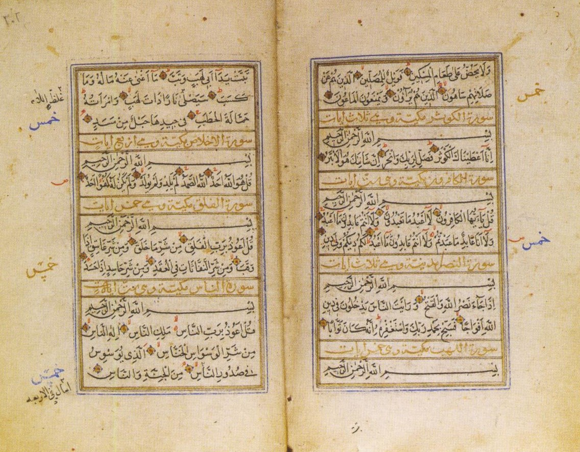 from Ute Franke, Joachim Gierlichs: Roads of Arabia. Archäologische Schätze aus Saudi-Arabien. Berlin 2011. S. 256.